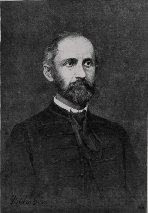 The historian Gedeon Ladányi